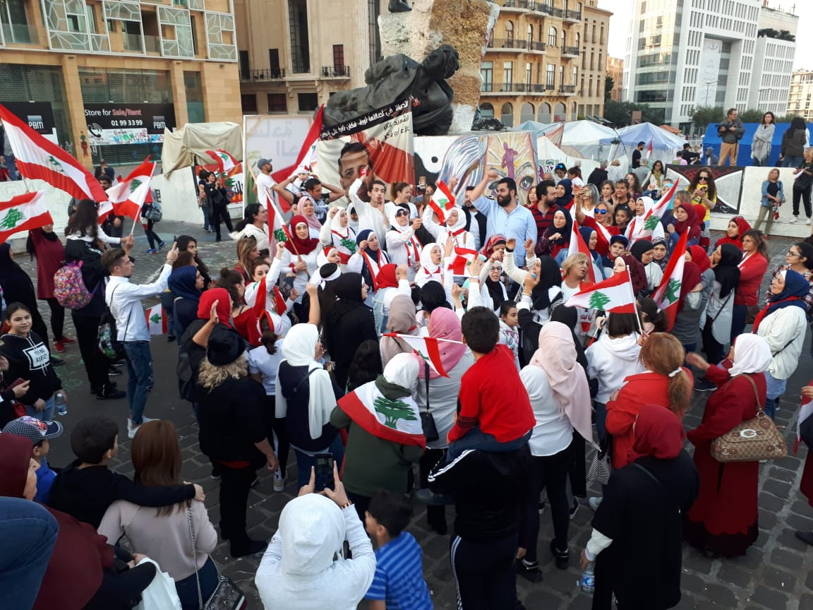 Independence Day Beirut